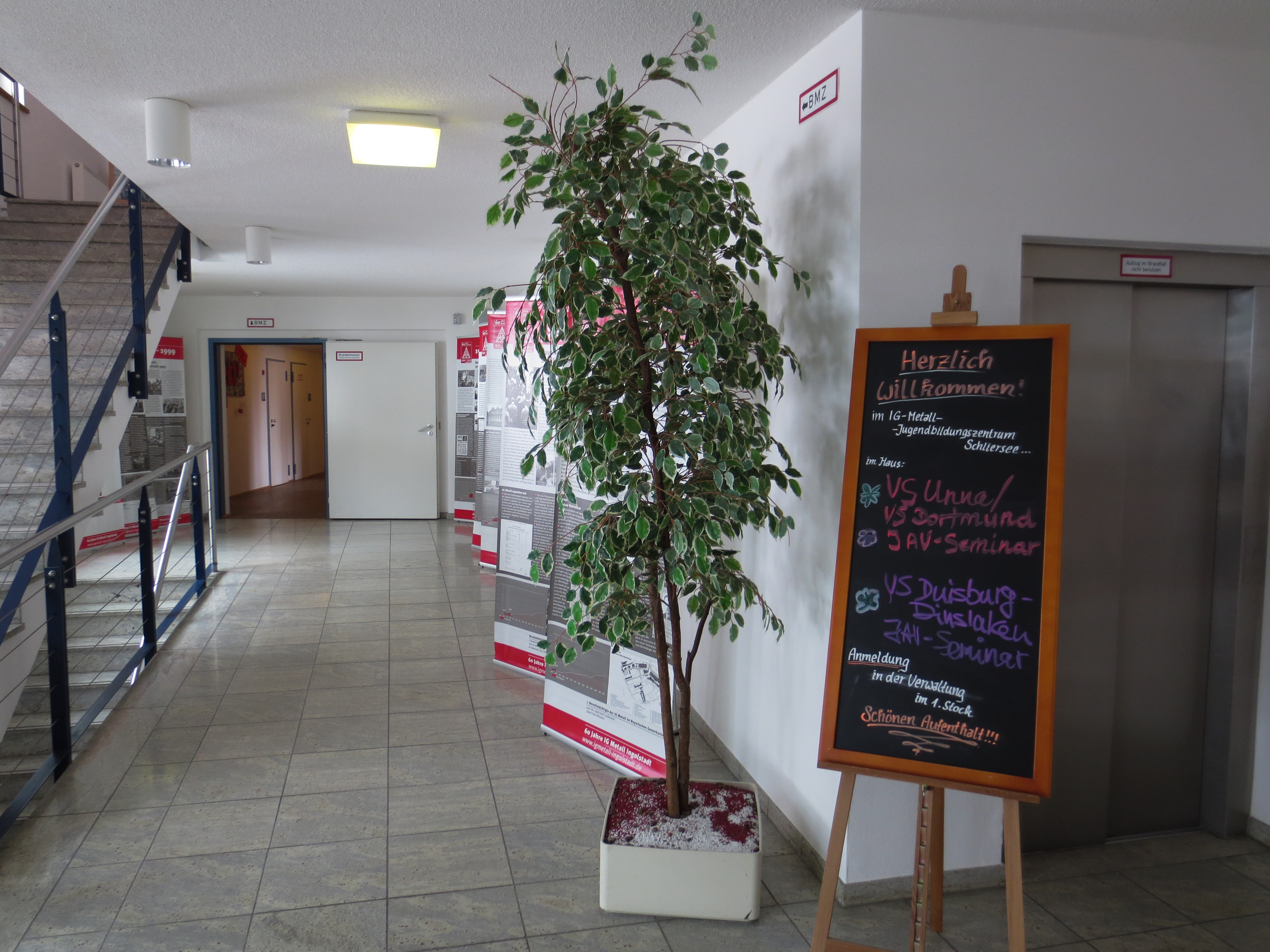 The youth educational center of the german trade union IG Metall in Schliersee. The Entrance.